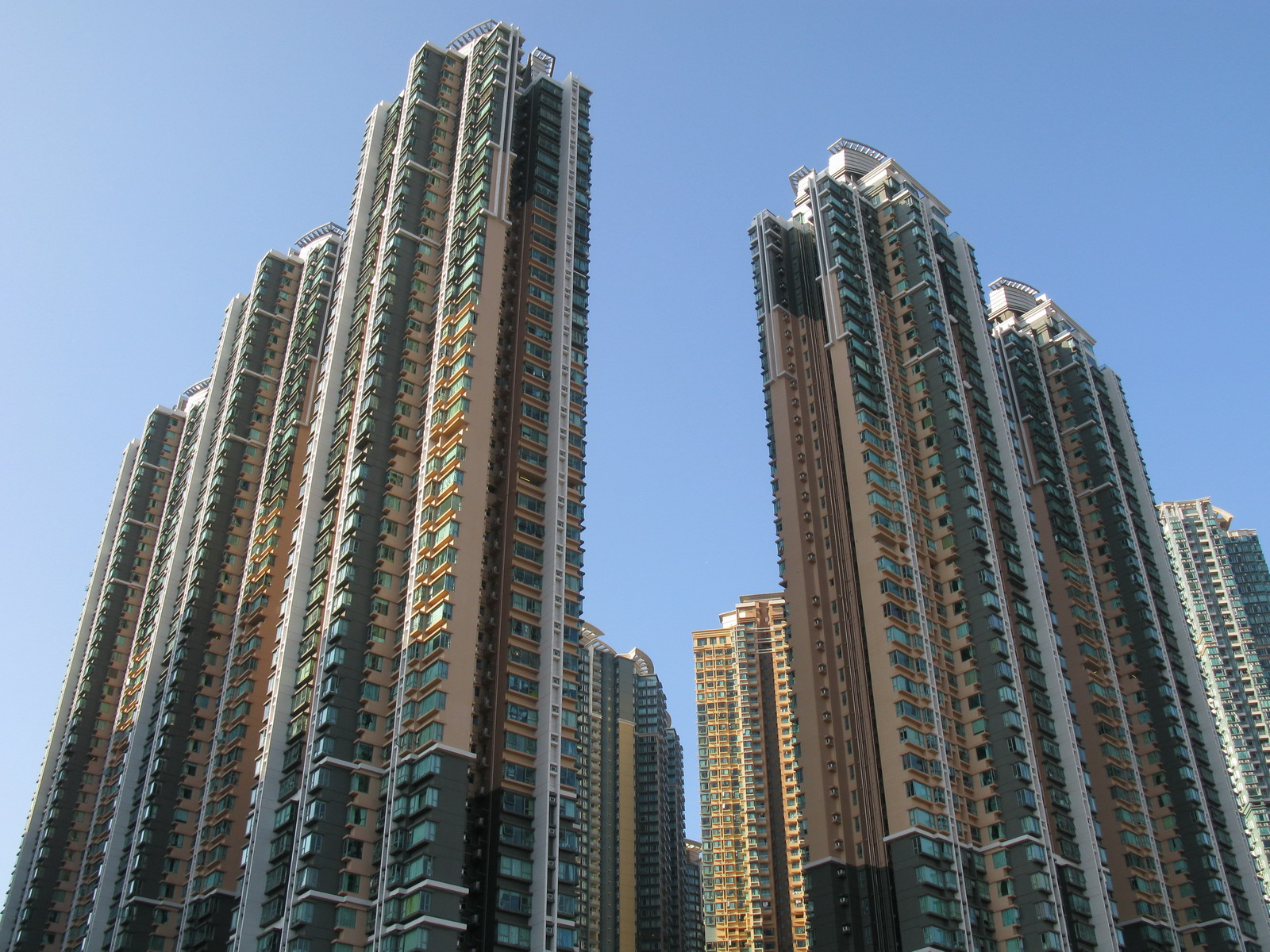 AquaMarine, Cheung Sha Wan